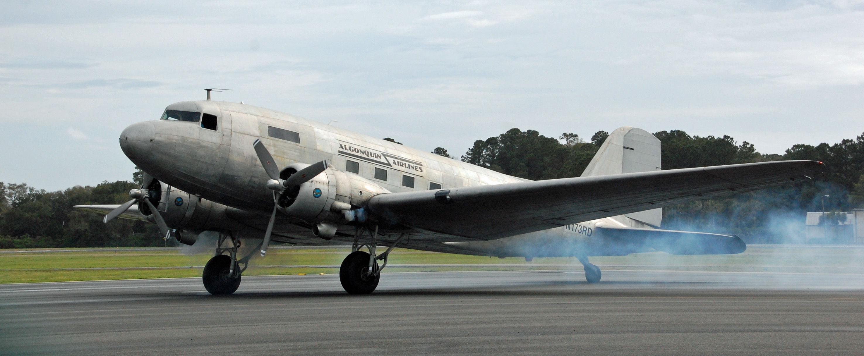 A 1944 Douglas DC-3C cold starting the engines. The tail number is N173RD and the serial number is 25313.